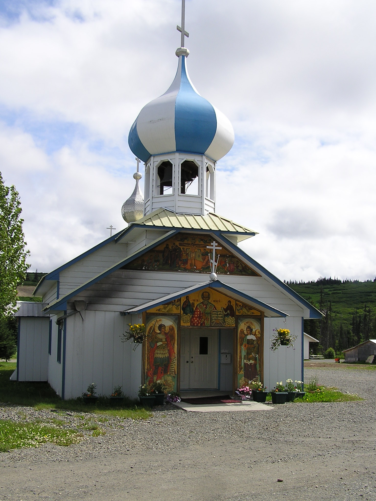 Russian Old Believers Chapel in Nikolaevsk, Alaska was built in 1983. Sergey Lipolit from Romania painted inside and outside the chapel.